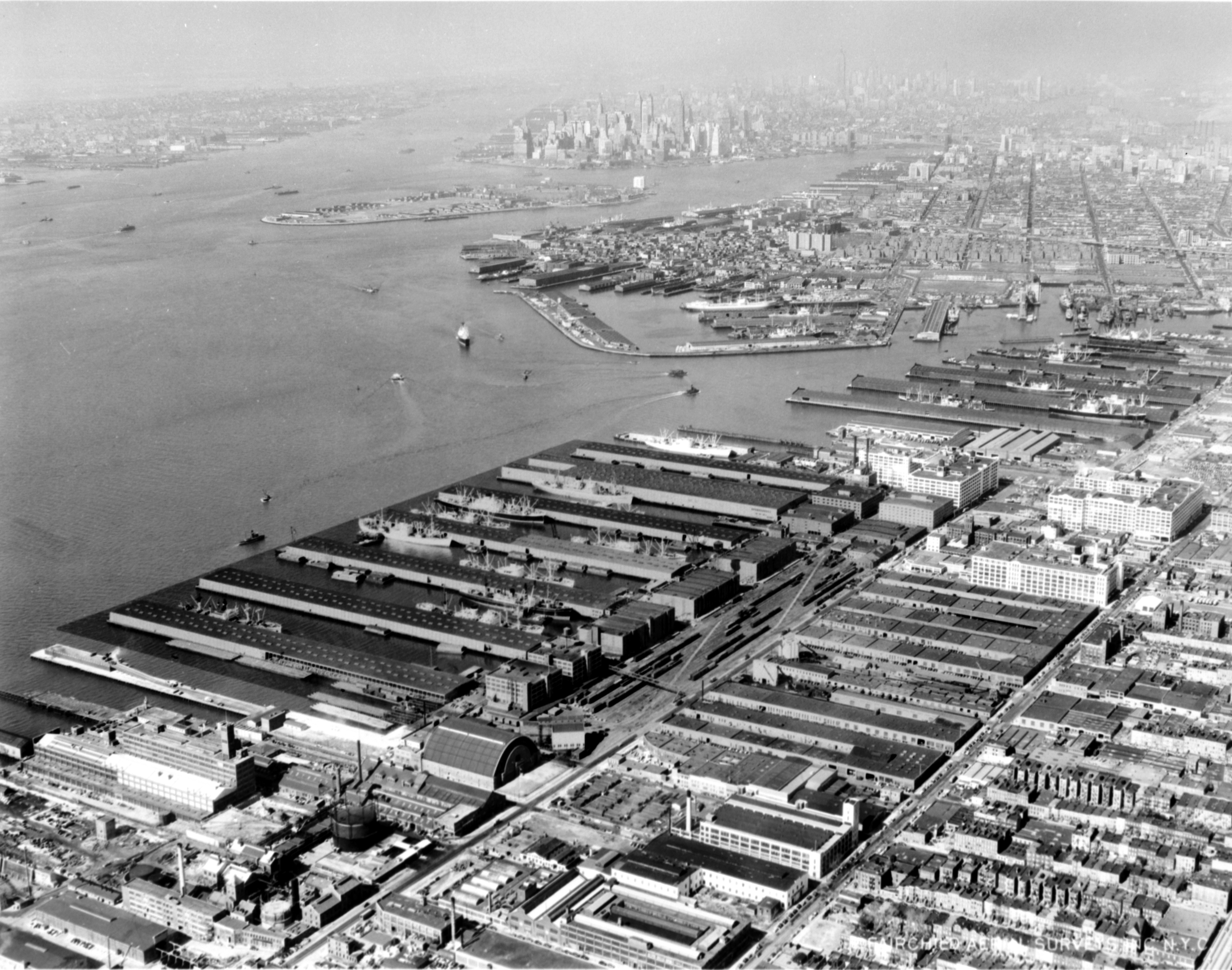 Aerial view of Bush Terminal, Brooklyn, New York, on New York Harbor. Looking north. The rail yard is in the center. In the distance is lower Manhattan. The freight terminal, warehouse district and manufacturing complex was built in 1895 and expanded multiple times throughout the 20th century. The complex was renamed Industry City in the mid-1980s. Photo straightened and cropped.